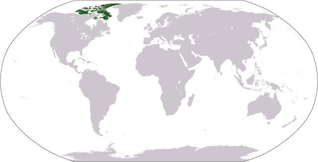 World map: Canadian Arctic Archipelago (location) Map adapted from PDF world map at CIA World Fact Book